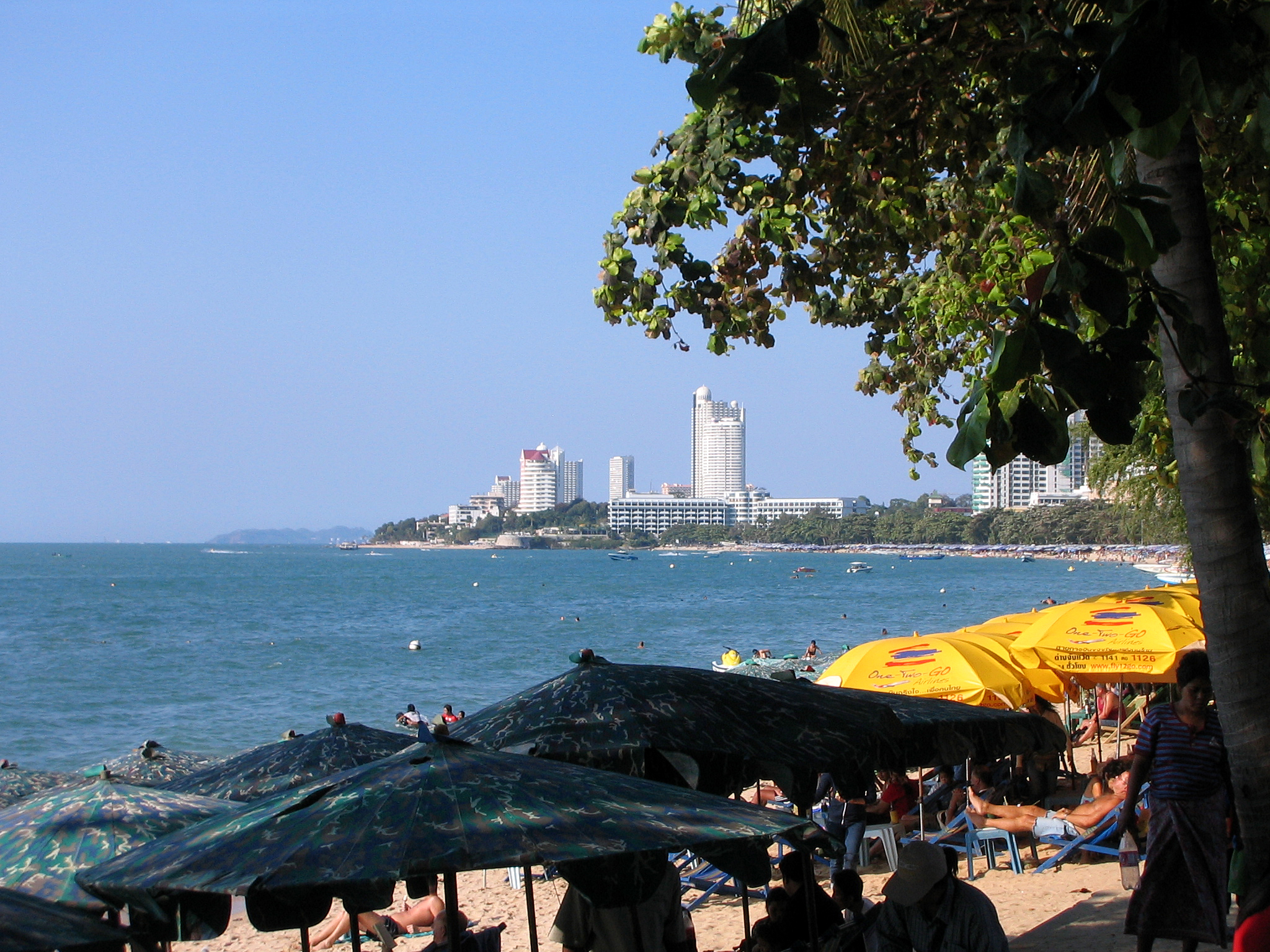 Pattaya Beach, Thailand. A view to the north (Wong Amat Hotel and Naklua).